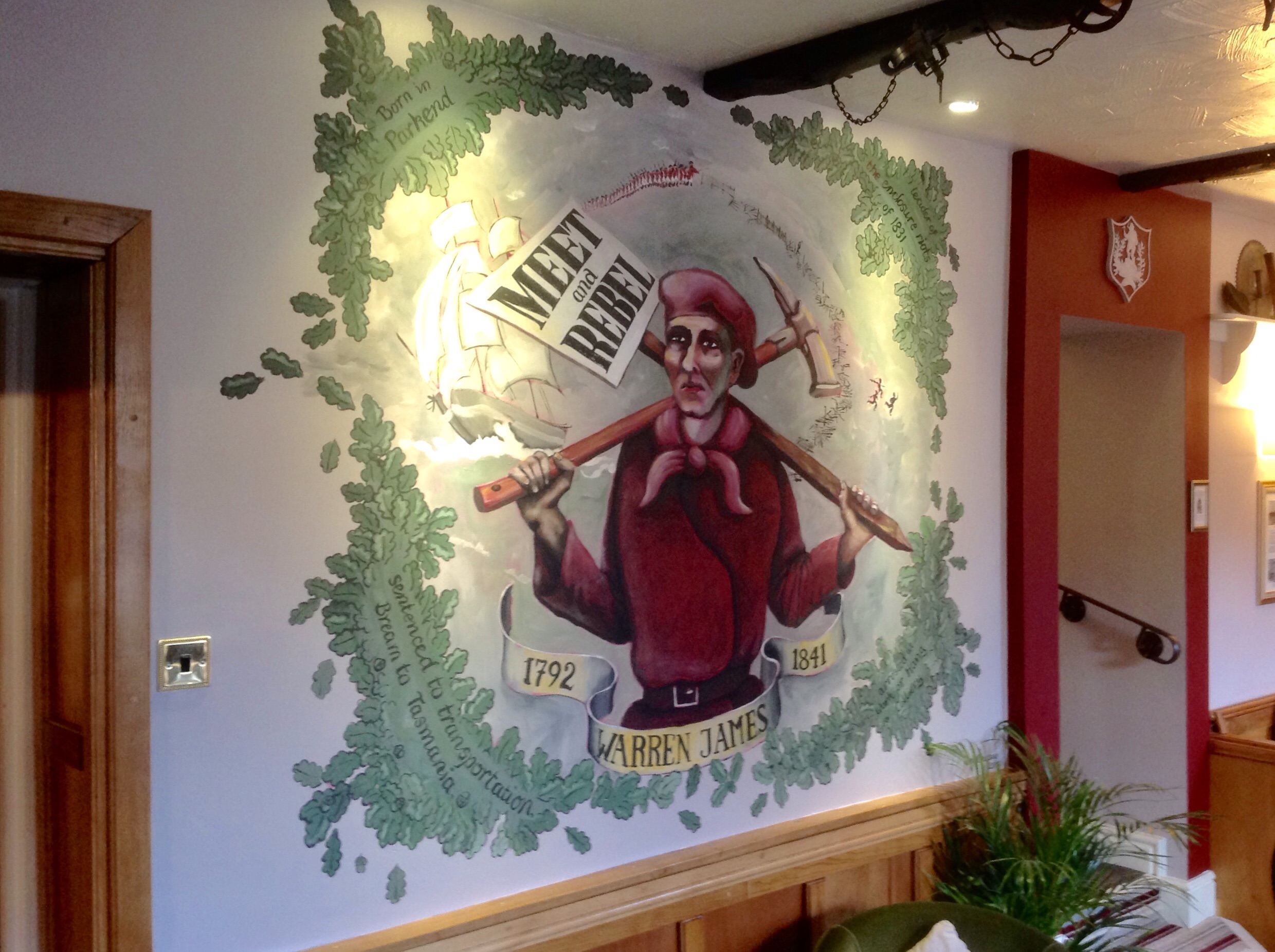 Stylised mural of Warren James (1792-1841). Painted by Tom Cousins at The Fountain Inn, Parkend, Forest of Dean, Gloucestershire.